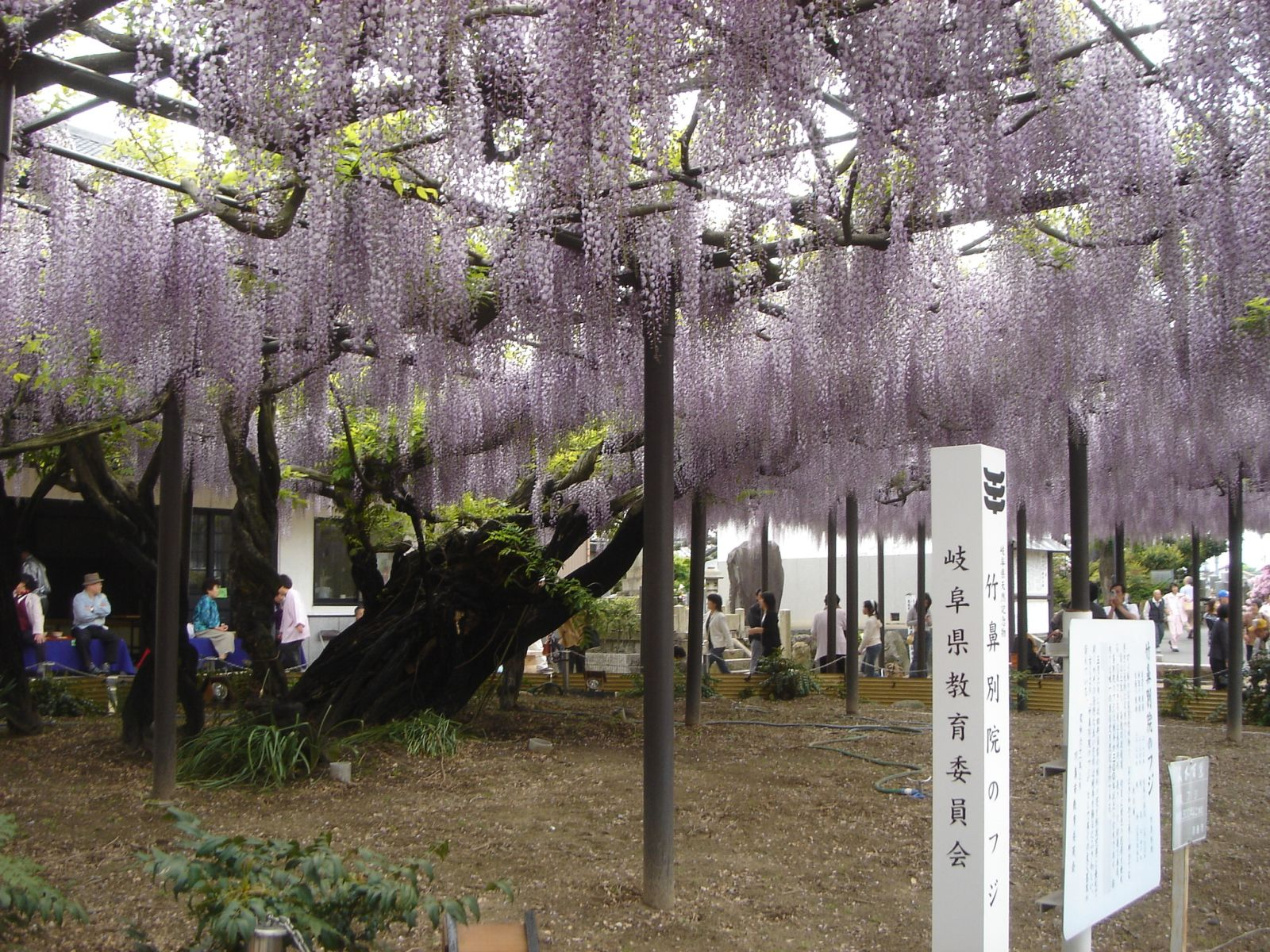 Wisteria floribunda in Takehana Betsuin(Temple)(竹鼻別院の藤),Hashima,Gifu,Japan(岐阜県羽島市)で撮影